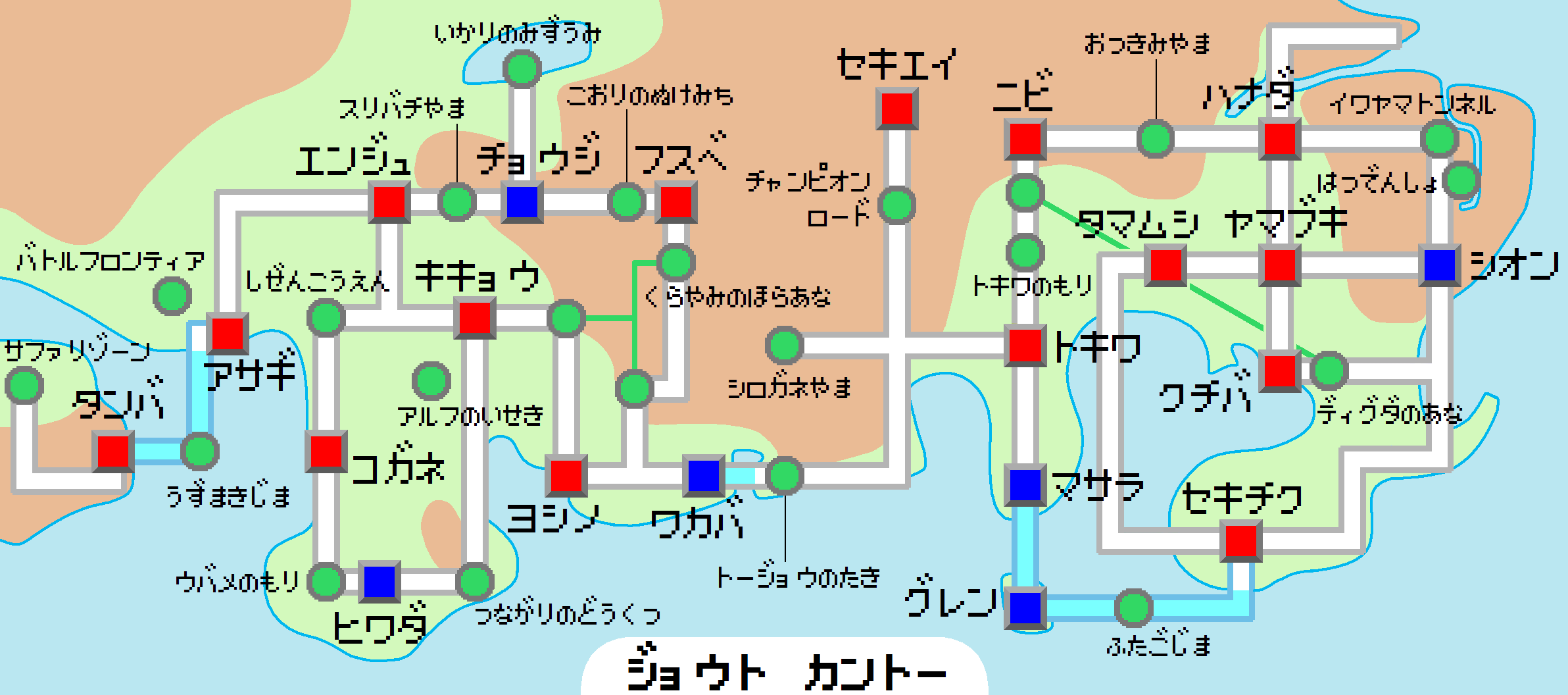 A map of Kanto and Johto, fictitious regions in Pokemon